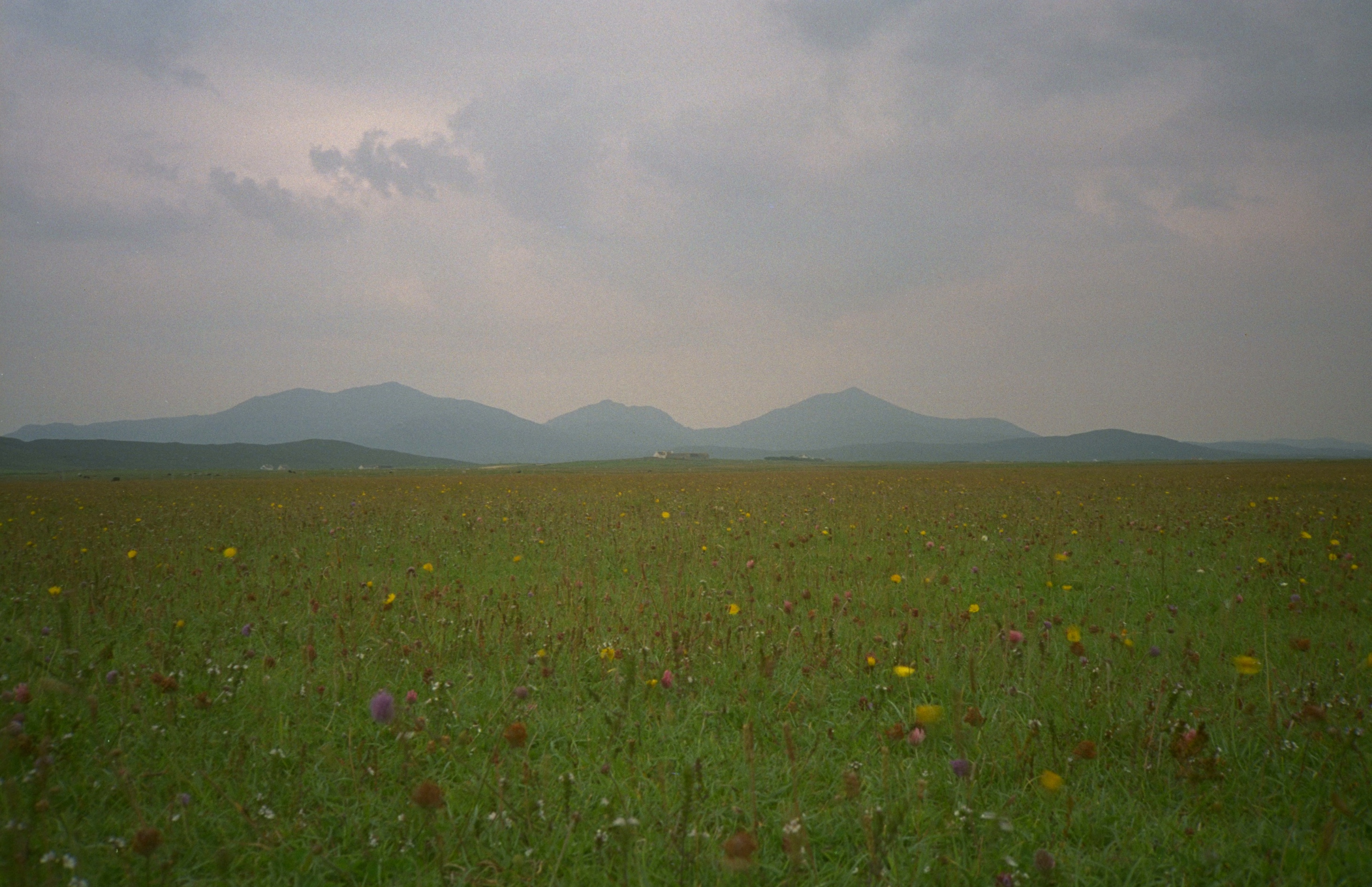 Flowering machair, Hills of South Uist, Outer Hebrides.